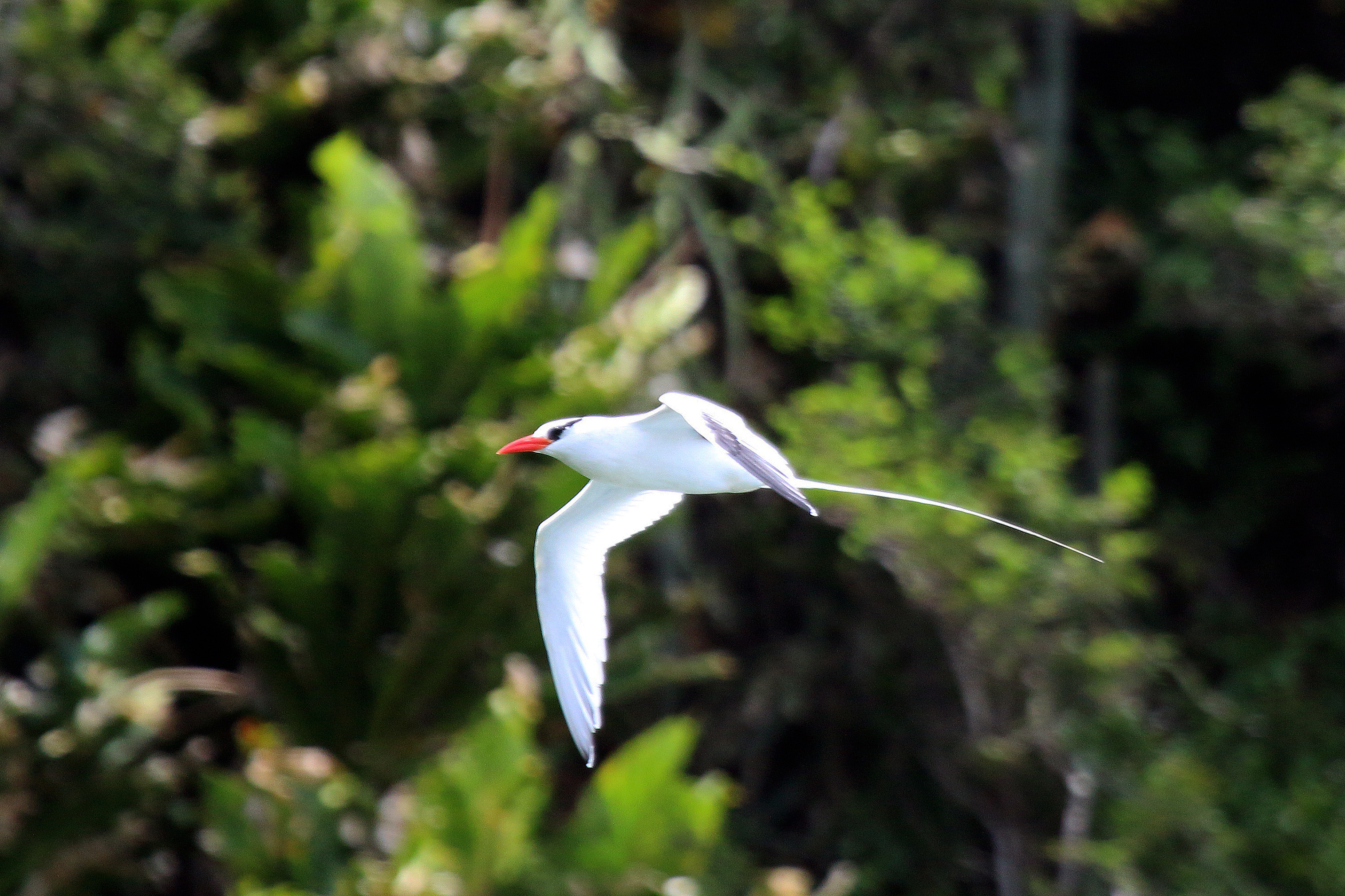 Red-billed tropicbird (Phaethon aethereus mesonauta) in flight, Little Tobago